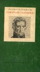 Book cover of the book "Memoria Autografa" of Cornelio Saavedra, reprint of Editorial Emecé in 1944